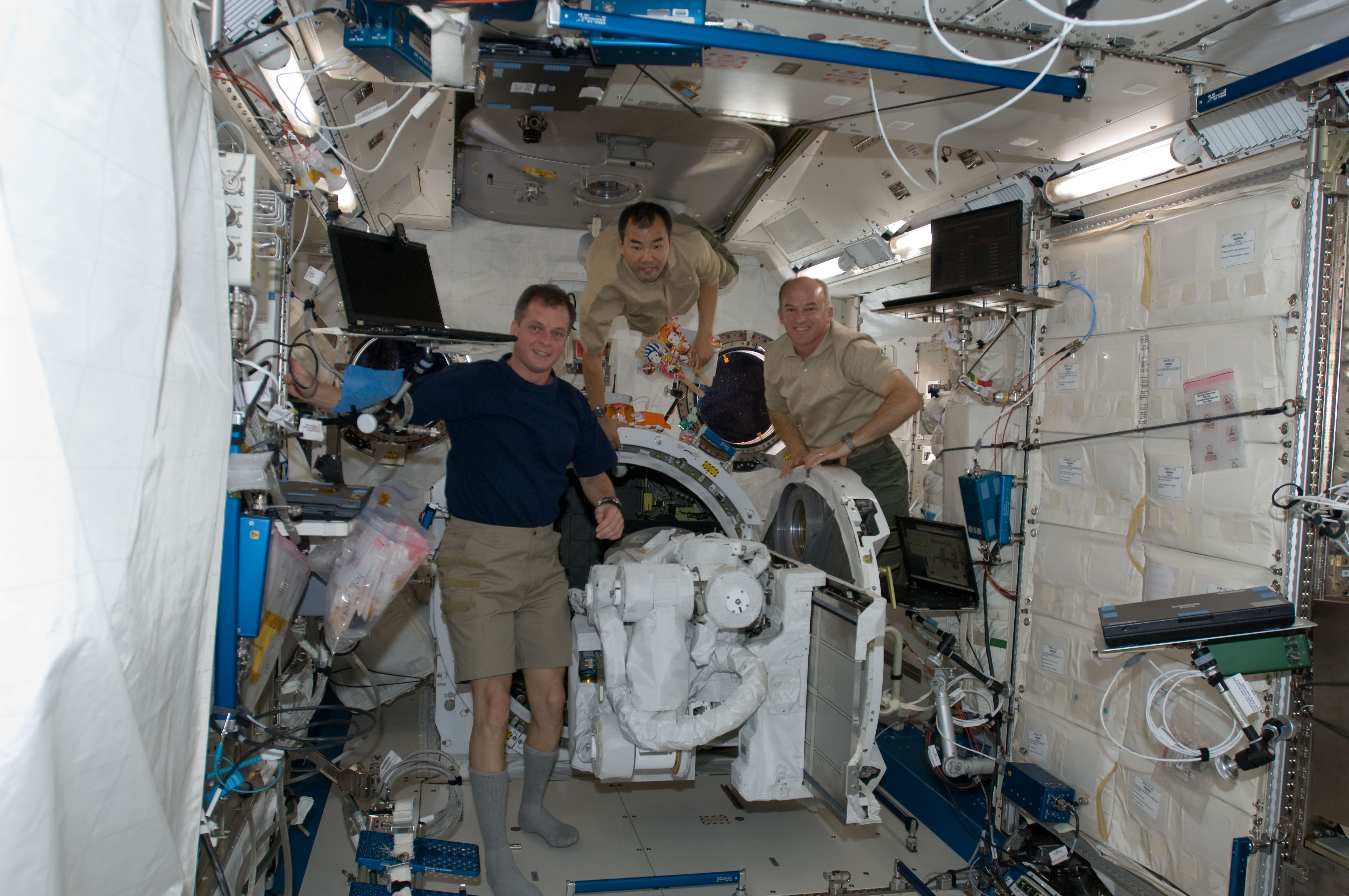 NASA astronaut Jeffrey Williams (right), Expedition 22 commander; Japan Aerospace Exploration Agency astronaut Soichi Noguchi (center) and NASA astronaut T.J. Creamer, both flight engineers, pose for a photo with the Japanese Experiment Module Remote Manipulator System (JEMRMS) Small Fine Arm (SFA) in the Kibo laboratory of the International Space Station.